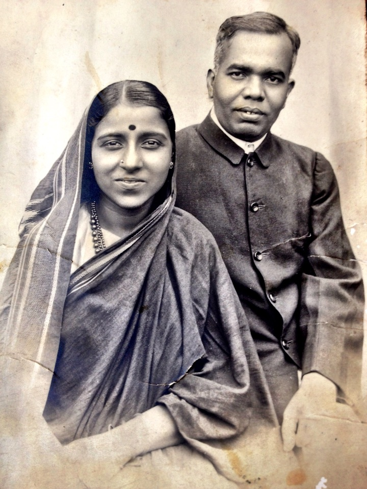 Bade guruji with his wife